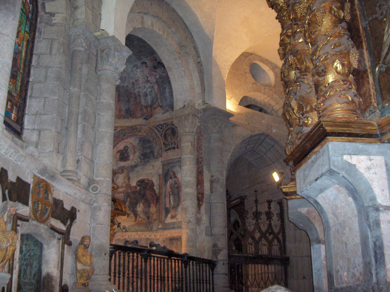 View from the ambulatory on a radiating chapel in the cathedral of Santiago de Compostela, Spain